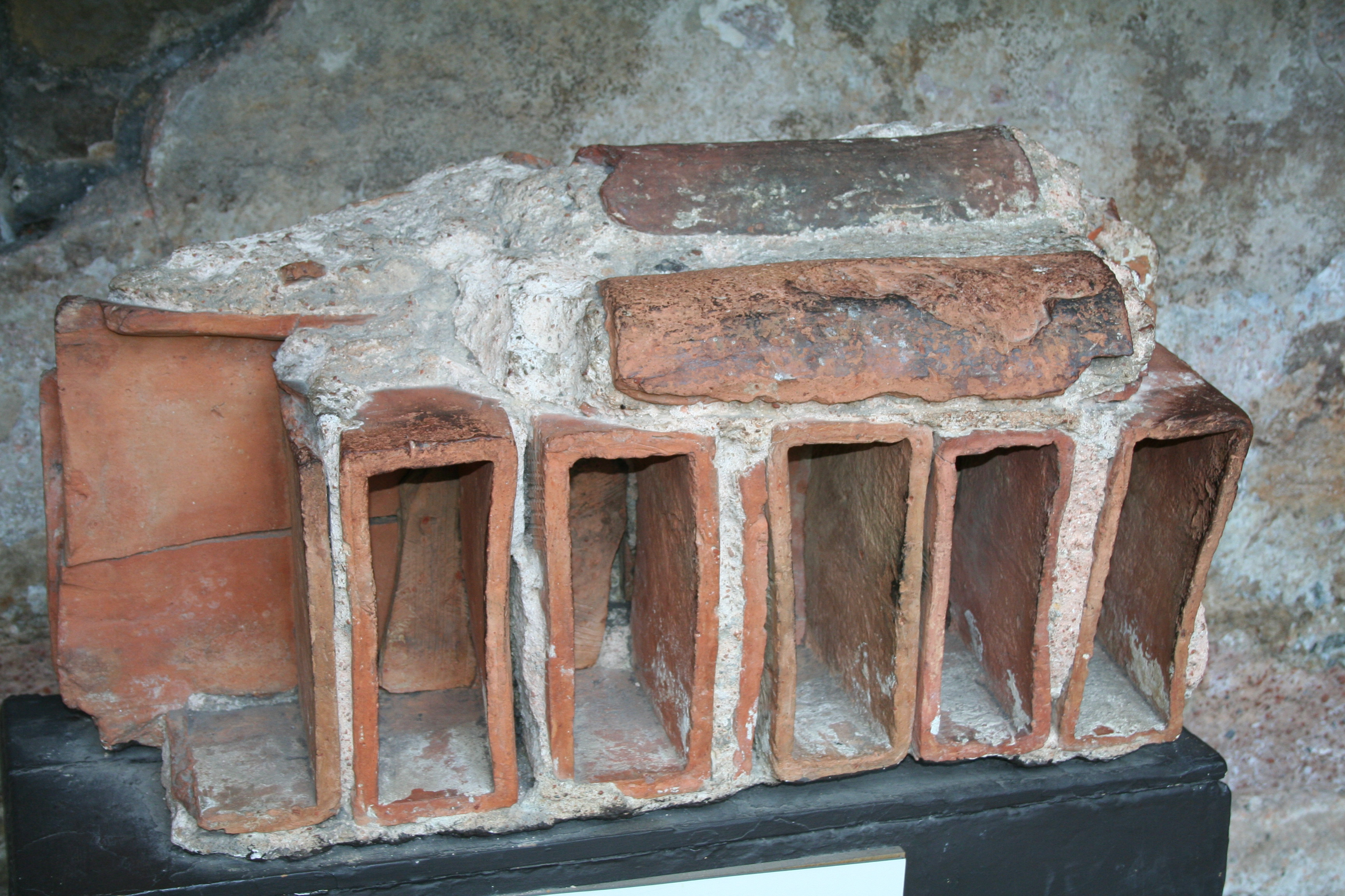 Roof fragment of the roman bath in Bath, UK. Hollow box tiles were used to reduce the weight of the heavy roof and insulate the bath. The curved roof tiles formed an outer covering to protect the roof from weather.